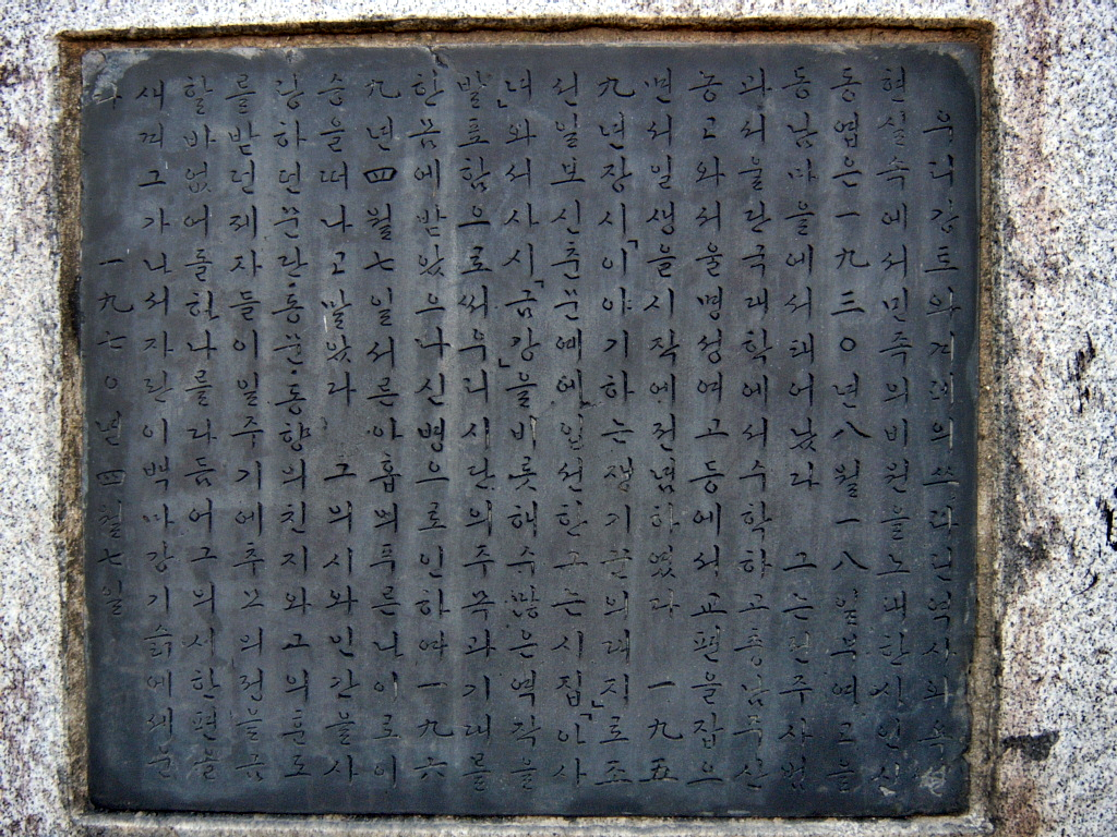 The monument inscribed with a poem of Sin DongYeop(back)